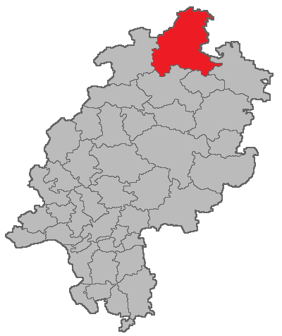 Map of the district court Kassel in Hesse